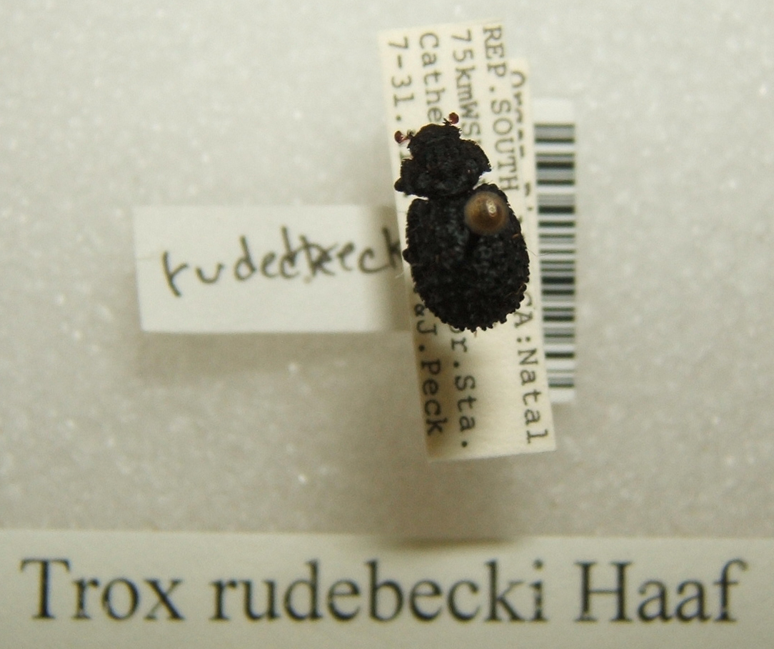 Trox rudebecki adult taken by Shawn Hanrahan at the Texas A&M University Insect Collection in College Station, Texas. Cropped version: Trox rudebecki sjh.cropped.jpg